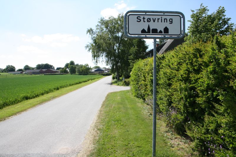 Stovring entry